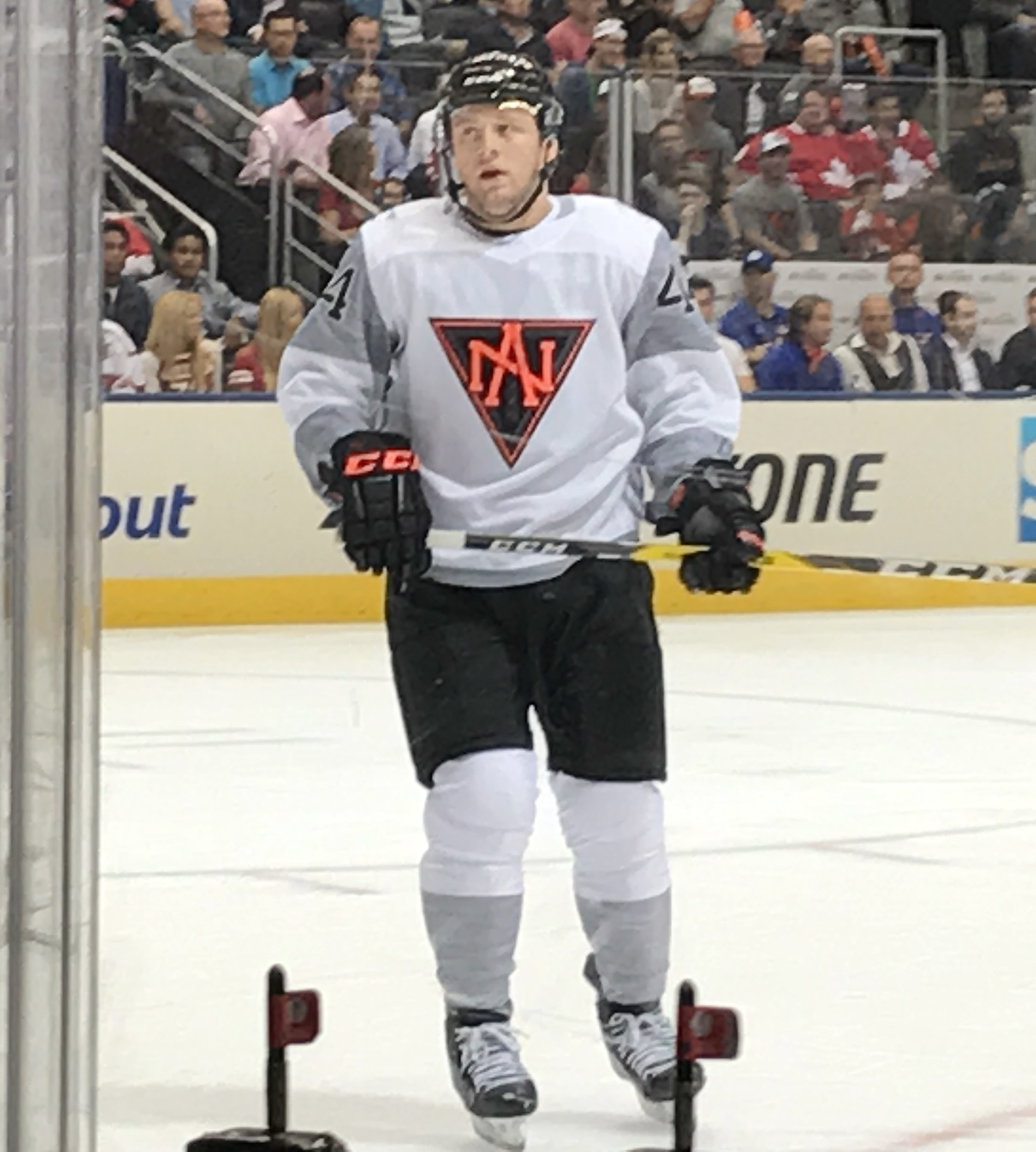 Morgan Rielly with Team North America